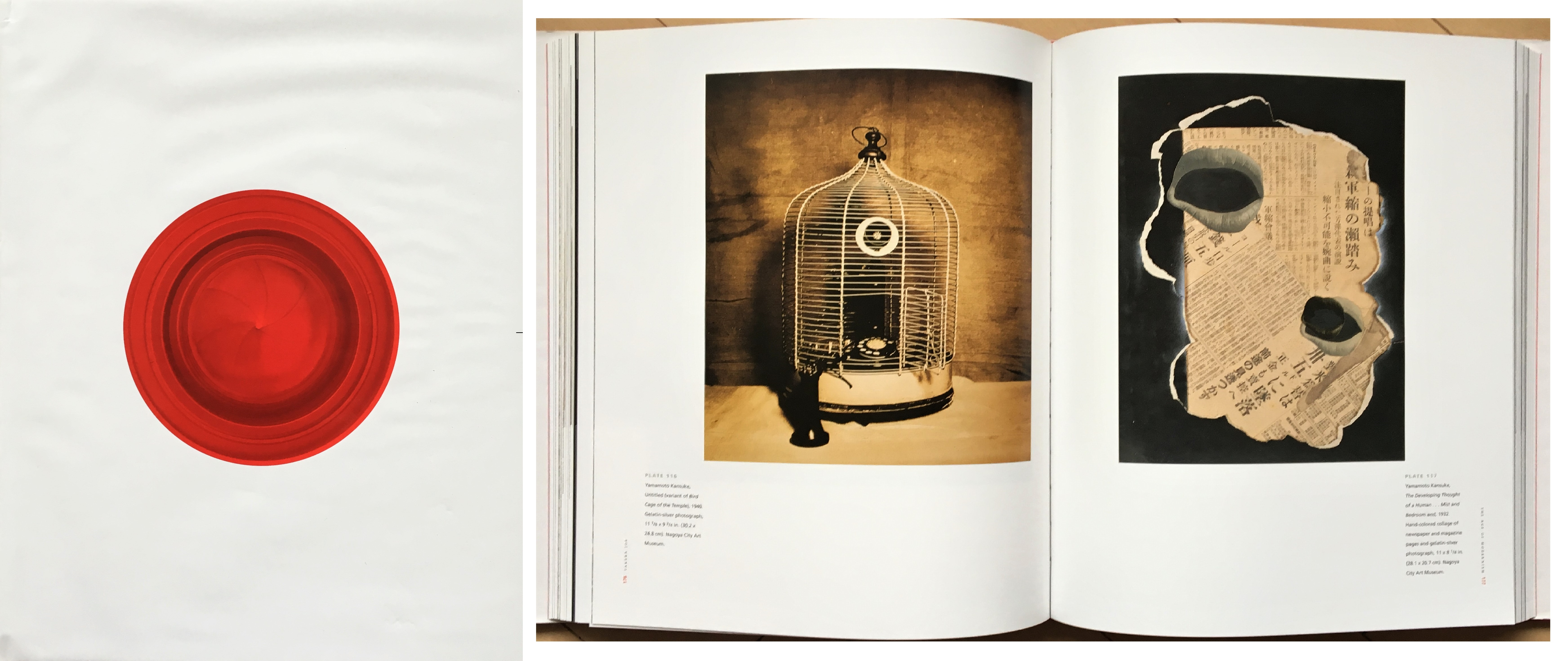 The History of Japanese Photography HOUSTON, 2003.